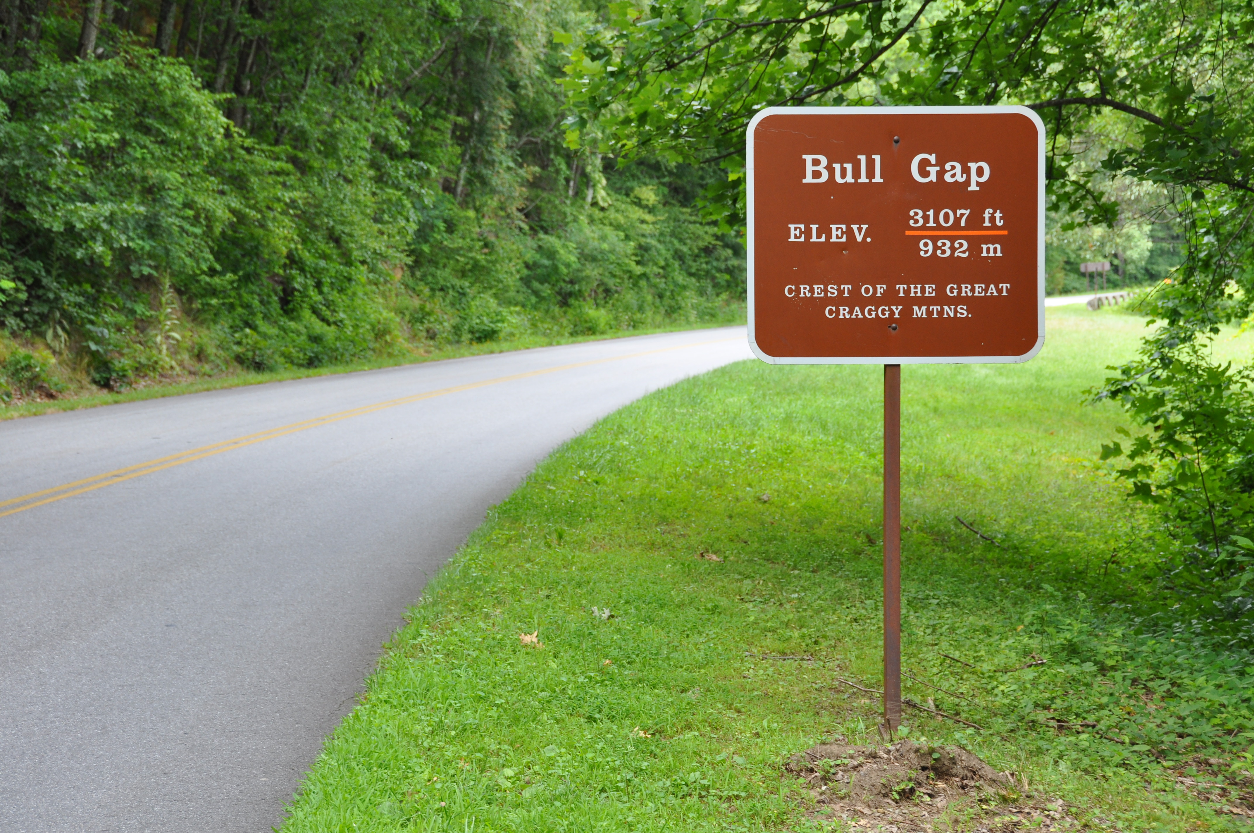 Picture of Bull Gap sign, along the Blue Ridge Parkway.